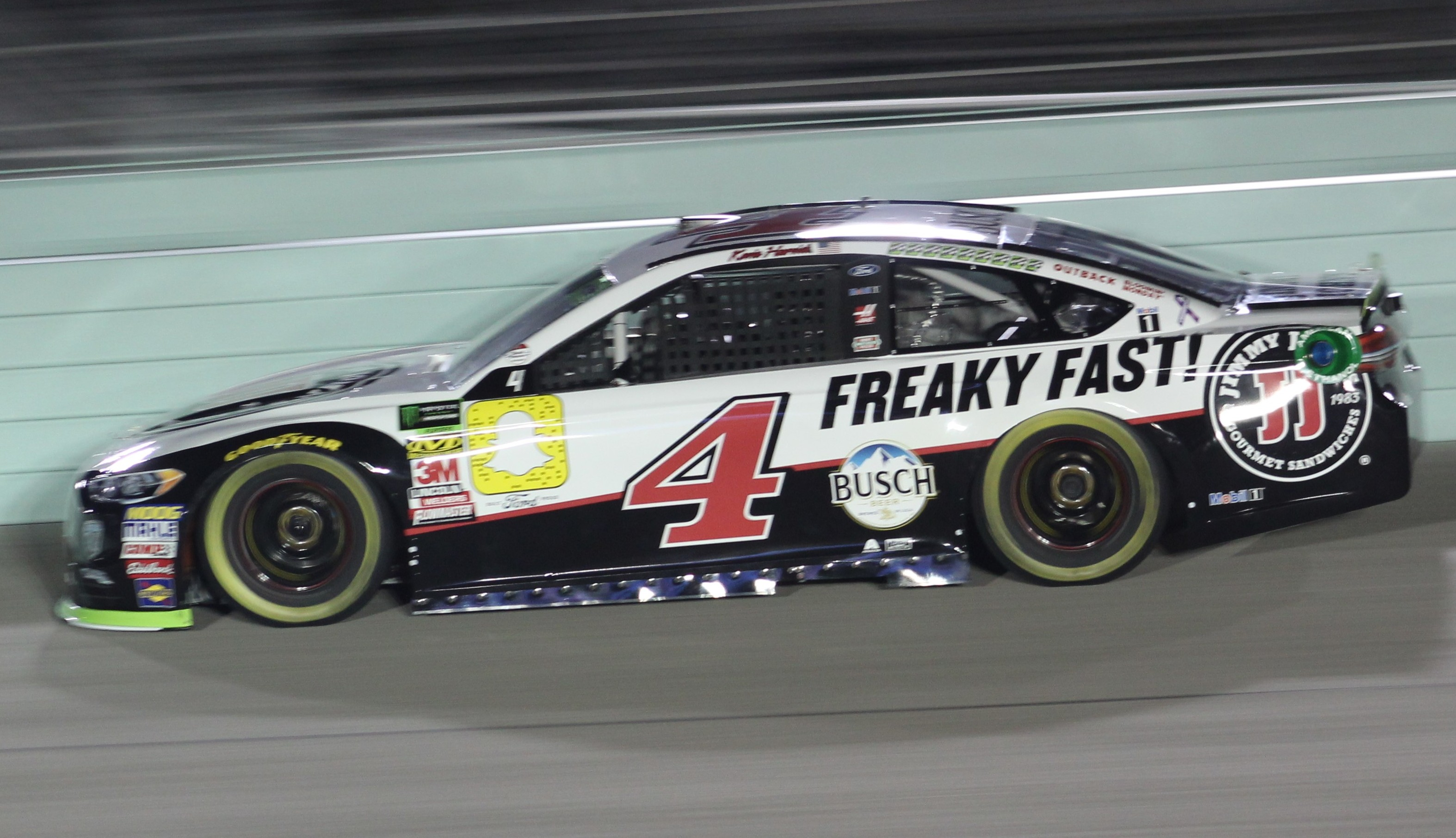 Kevin Harvick's No. 4 Jimmy John's Ford at Homestead–Miami Speedway in 2018